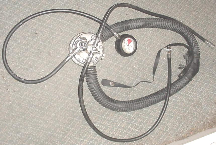 Nemrod twin-hose regulator made in the 1980's. Anthony Appleyard made this photograph.